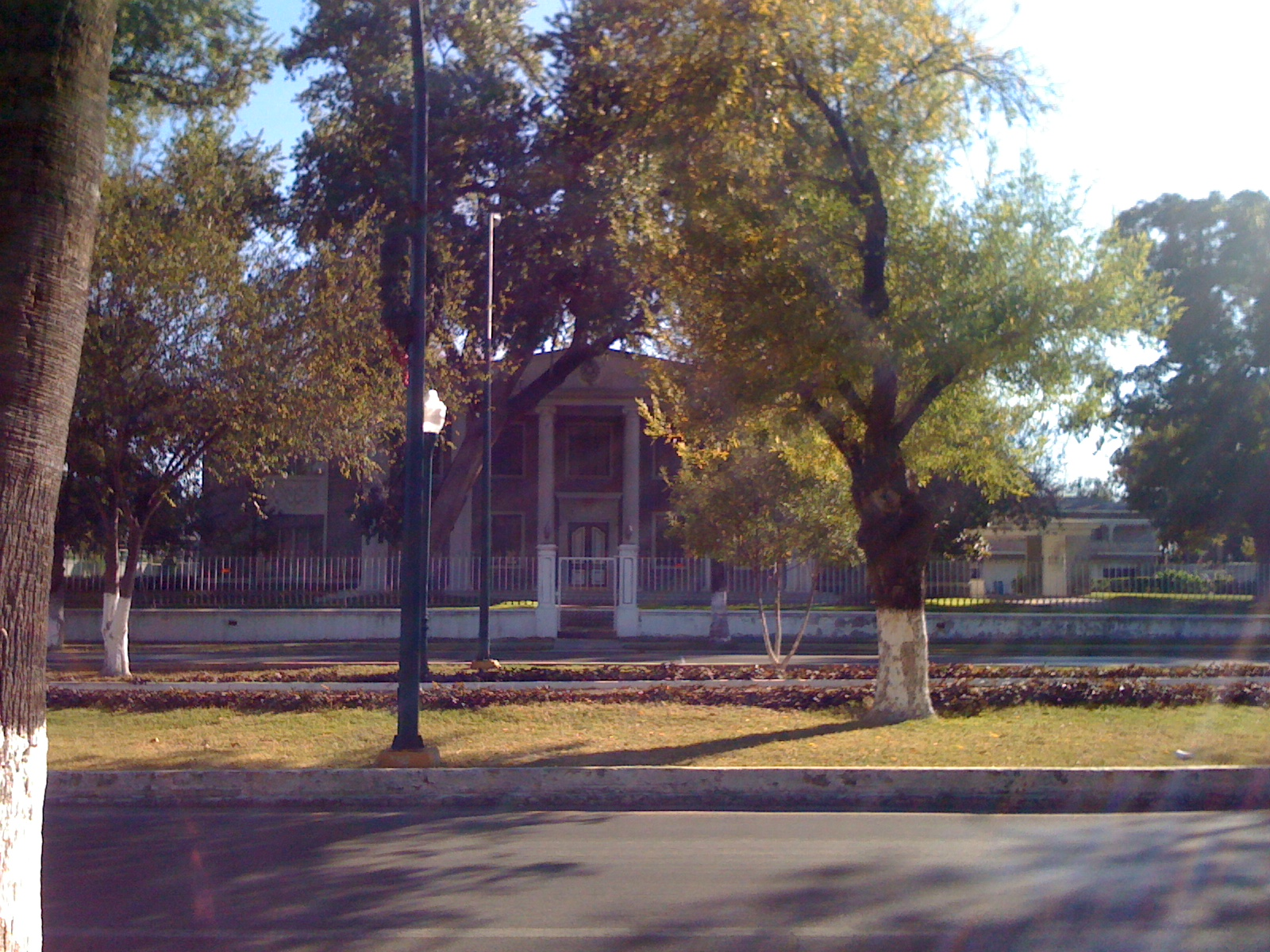 Longoria Mansion